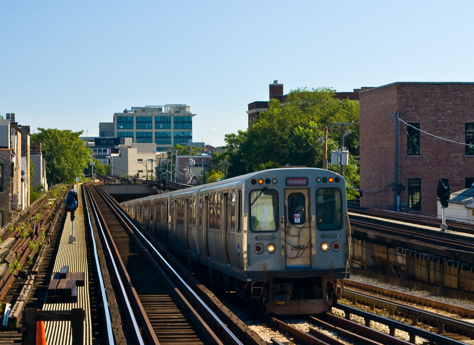 A CTA train emerges from the north portal of the State Street Subway on the Chicago 'L' Red Line